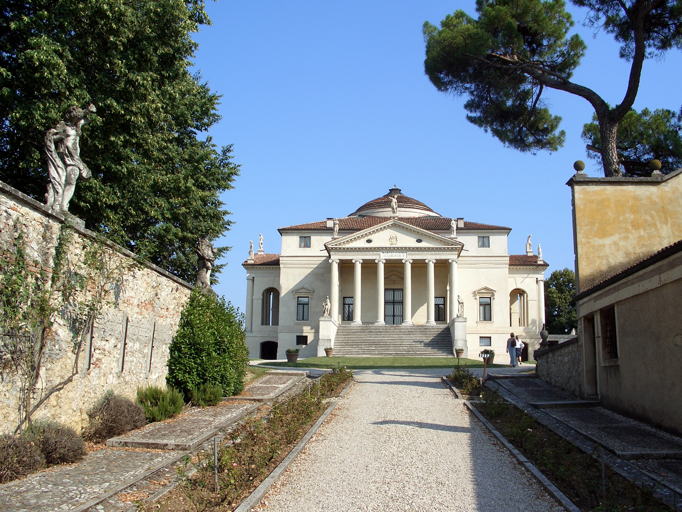 Villa Rotonda, near Vicenza, northern Italy